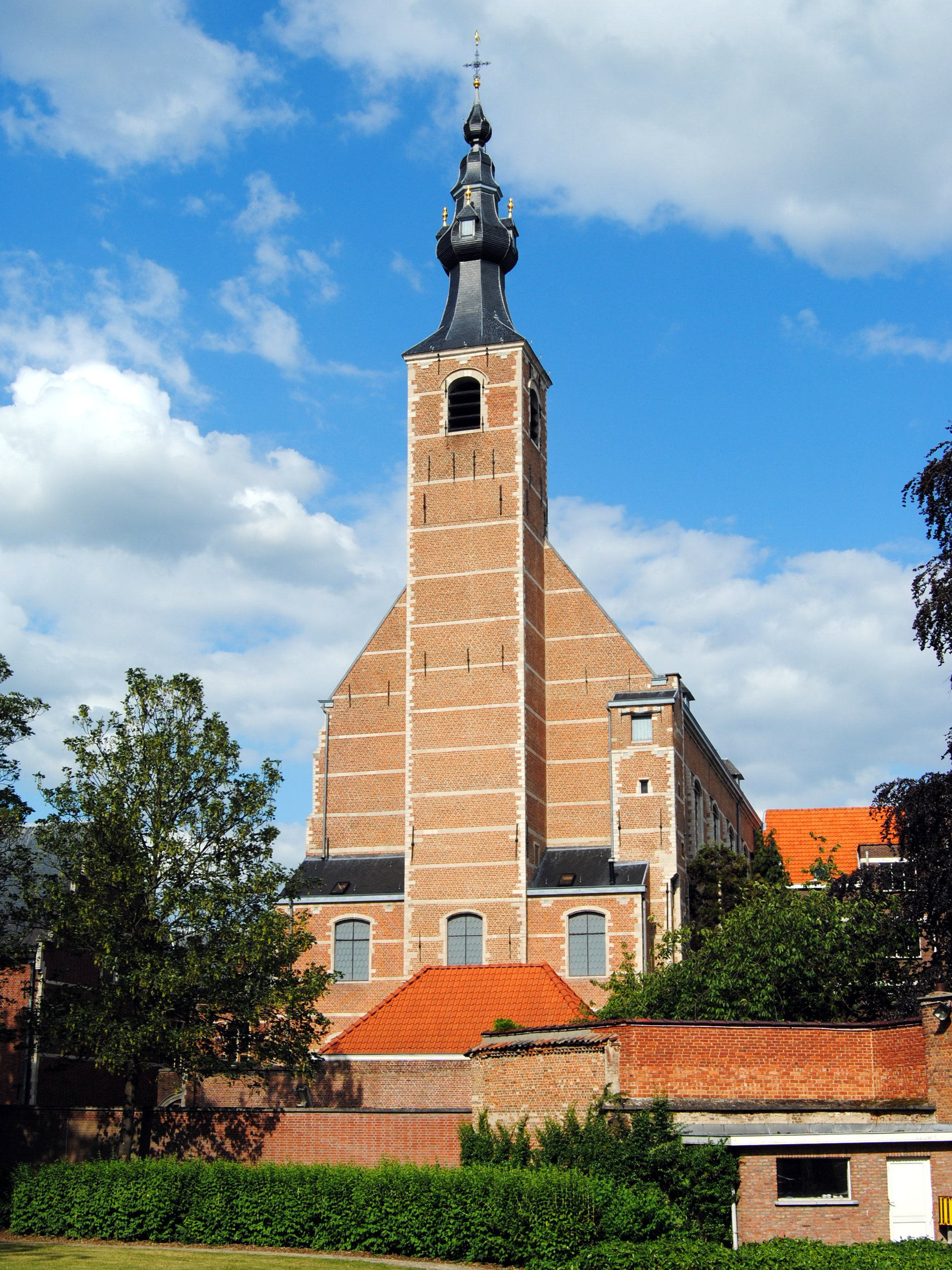 Church Onze-Lieve-Vrouw-van-Leliendaal